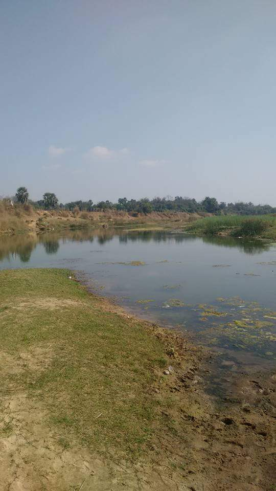 কোপাই